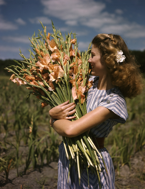 Persistent URL: Local call number: JJS0361A Title: Unidentified woman holding gladiolus at Terra Ceia Island Farms, Florida Date: May 8, 1947 Physical descrip: 1 transparency - col. - 5 x 4 in. Series Title: Joseph Janney Steinmetz Collection Repository: State Library and Archives of Florida, 500 S. Bronough St., Tallahassee, FL 32399-0250 USA. Contact: 850.245.6700.